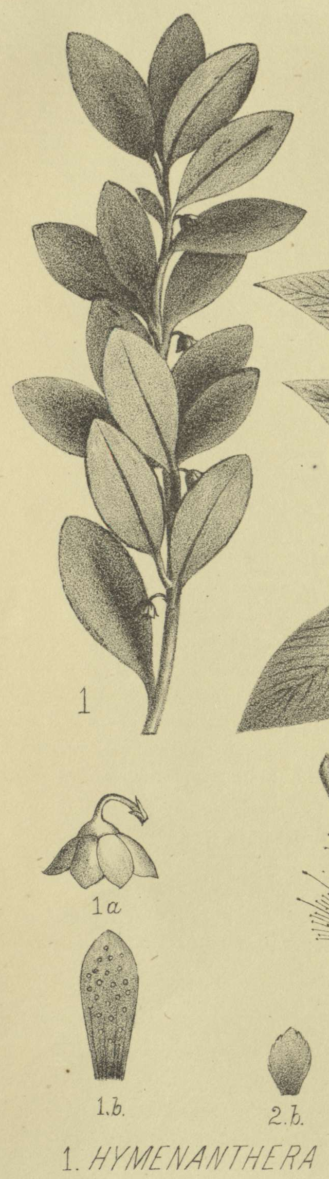 Pseudowintera traversii, previously Hymenanthera traversii, Buchanan. A Small glabrous, branched, shrub-tree. Branches rigid, reddish-brown, rough, with viscid secretion; leaves coriaceous, alternate, olive-green, shortly petioled, ¾-1 inch long, obovate, obtuse or acute, covered closely on the back with small silvery-white tubercles, margins reflexed, venation obscure, midrib distinct, stipules very small. Flowers very small, solitary, in the axils of the upper leaves; pedicels short, curved, with small bracts at base; calyx cupular, entire; petals ⅛ inch long, linear obovate or linear oblong, obtuse. This addition to the flora of New Zealand was discovered in the bush, Collingwood district, Nelson, by Mr. H. H. Travers, while on a recent visit there. As an ornamental foliaged plant it may be commended, but from its diminutive inflorescence it can hardly claim a place in the flower border. Plate XXVIII, fig. 1, portion of branch nat. size; 1 a, flower enlarged; 1 b, petal showing glands.